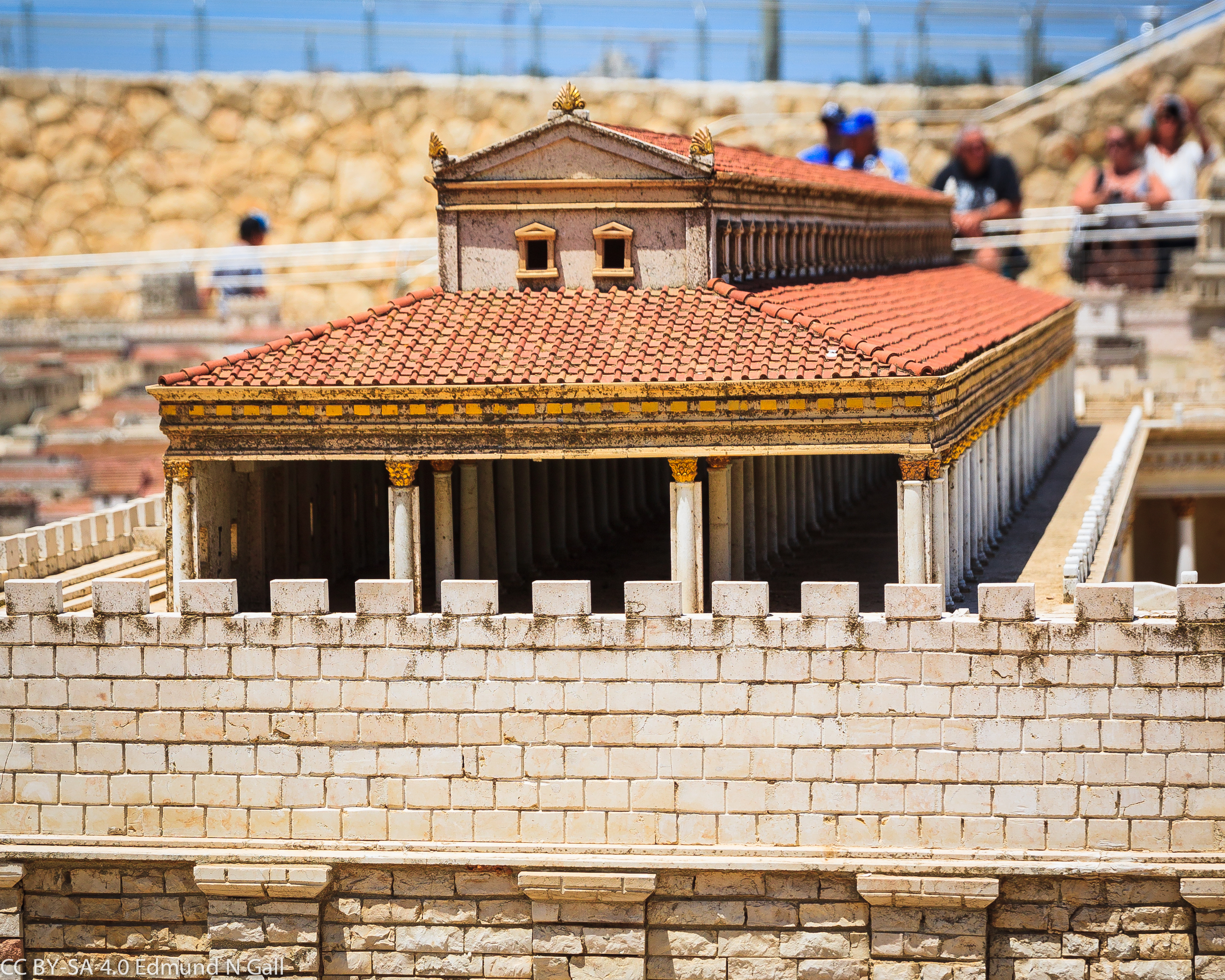 Adjacent to the Shrine is the Model of Jerusalem in the Second Temple Period, which reconstructs the topography and architectural character of the city as it was prior to its destruction by the Romans in 66 CE, and provides historical context to the Shrine’s presentation of the Dead Sea Scrolls. Originally constructed on the grounds of Jerusalem’s Holyland Hotel, the model, which includes a replica of Herod's Temple, is now a permanent feature of the Museum’s 20-acre campus.